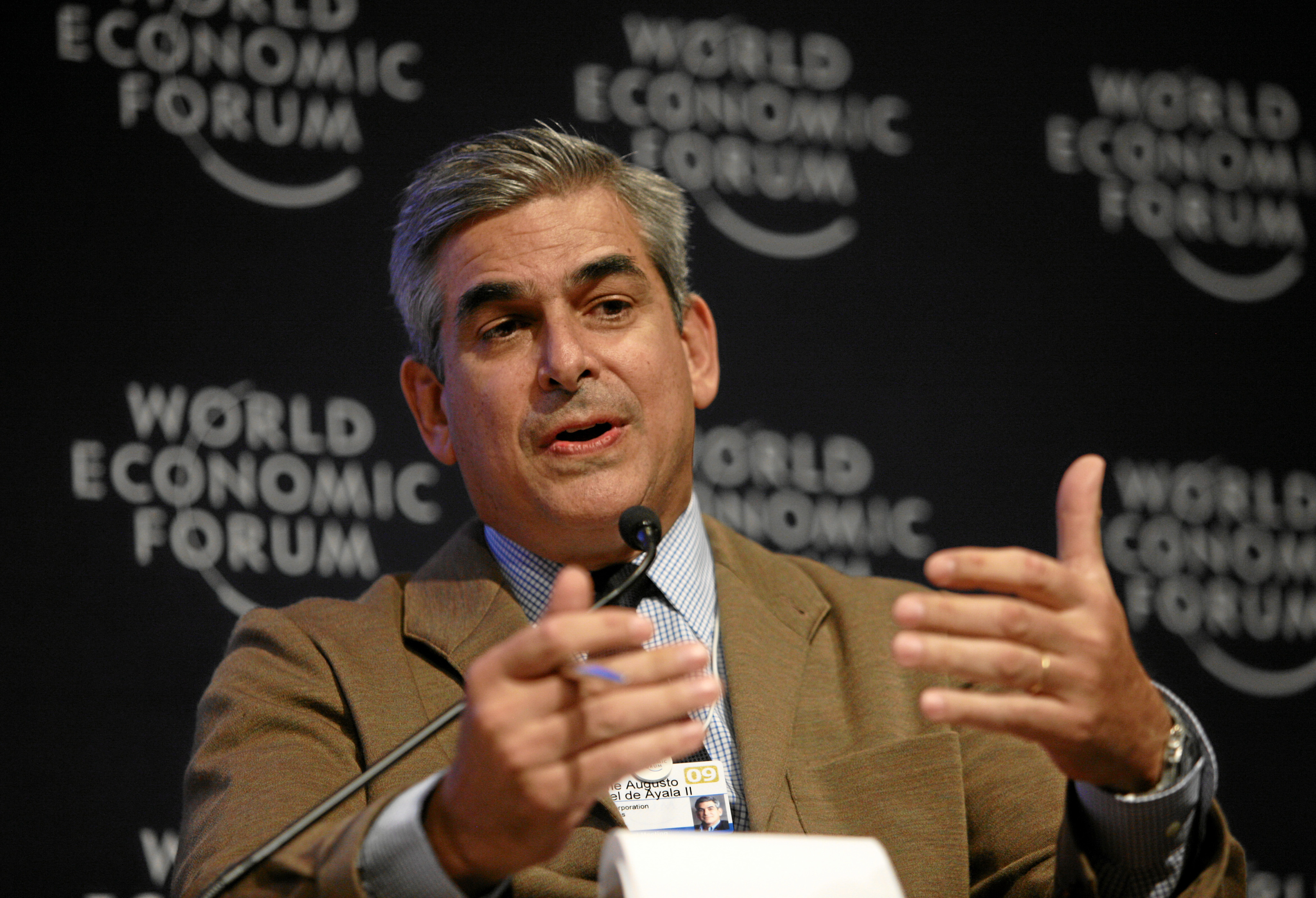 DAVOS-KLOSTERS/SWITZERLAND, 29JAN09 - Jaime Augusto Zobel de Ayala II, Chairman and Chief Executive Officer, Ayala Corporation, Philippines, speaks during the session 'Restoring Growth through Social Business' at the Annual Meeting 2009 of the World Economic Forum in Davos, Switzerland, January 29, 2009.